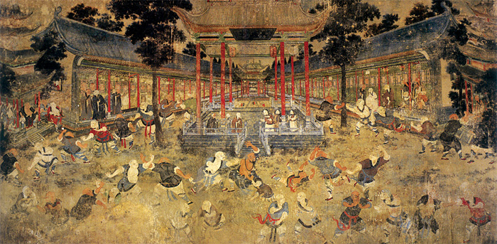 A mural in the Shaolin Monastery depicting sparring.